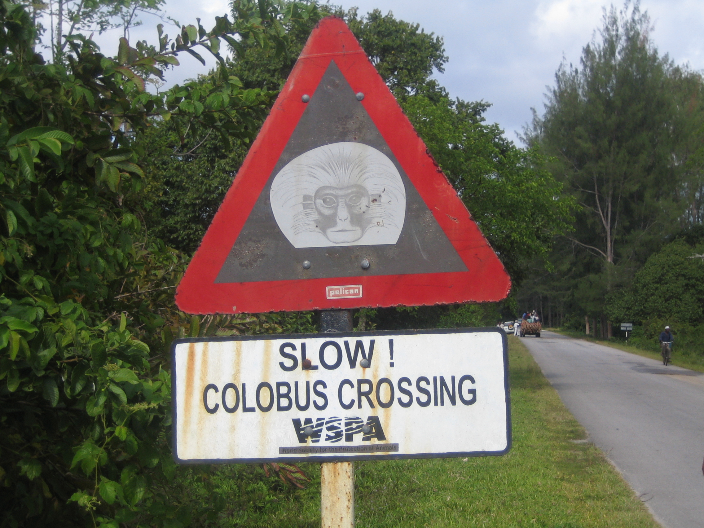 Zanzibar Red colobus road sign